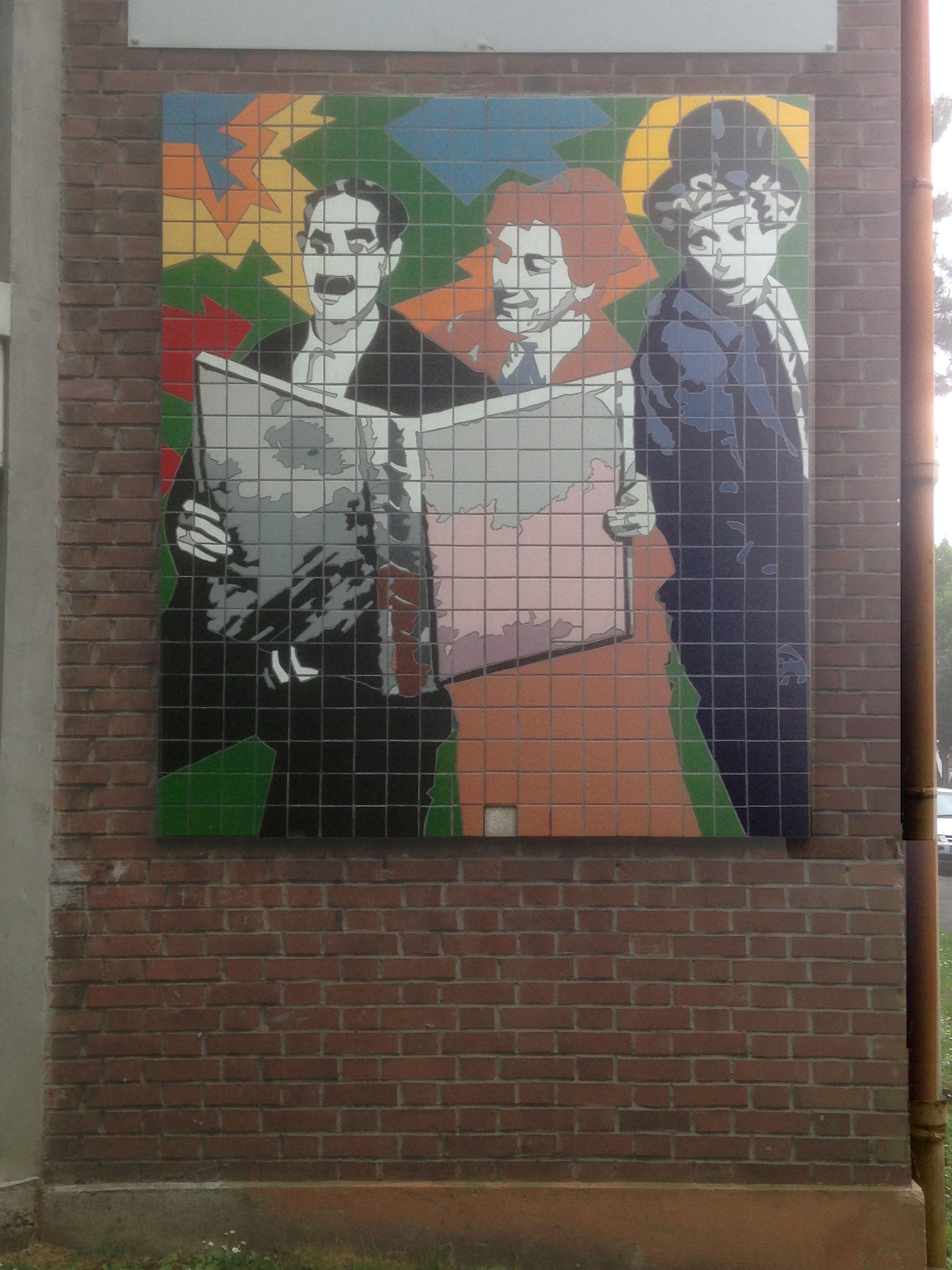 Mosaic dedicated to Harpo, Groucho et Karl on a building in Lille (Faubourg de Bethune), France